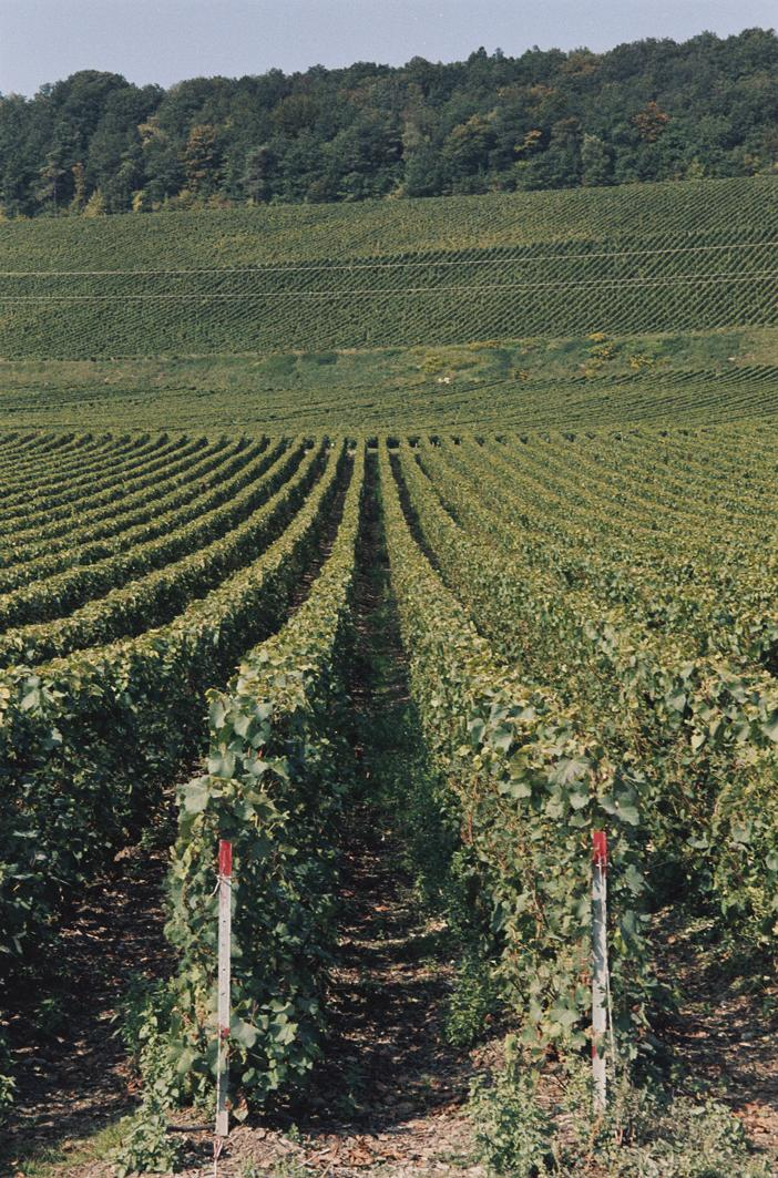 Moet & Chandon vines in Champagne, France. Taken with a Canon Eos 10s and a Sigma zoom AF 28-105mm f/2.8-4.0.